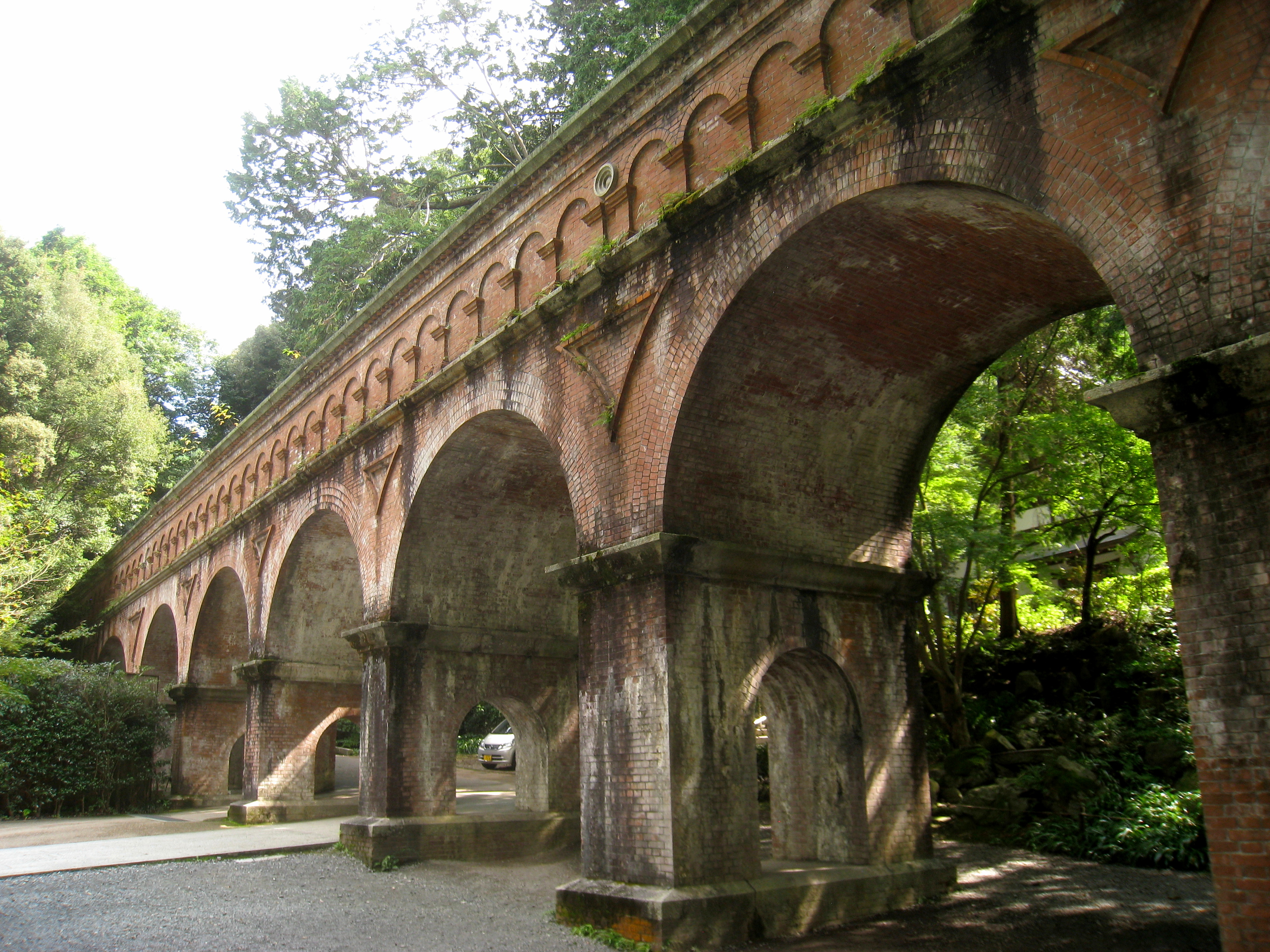 Aqueduct for Lake Biwa Canal, Nanzenji temple, Kyoto, Japan.